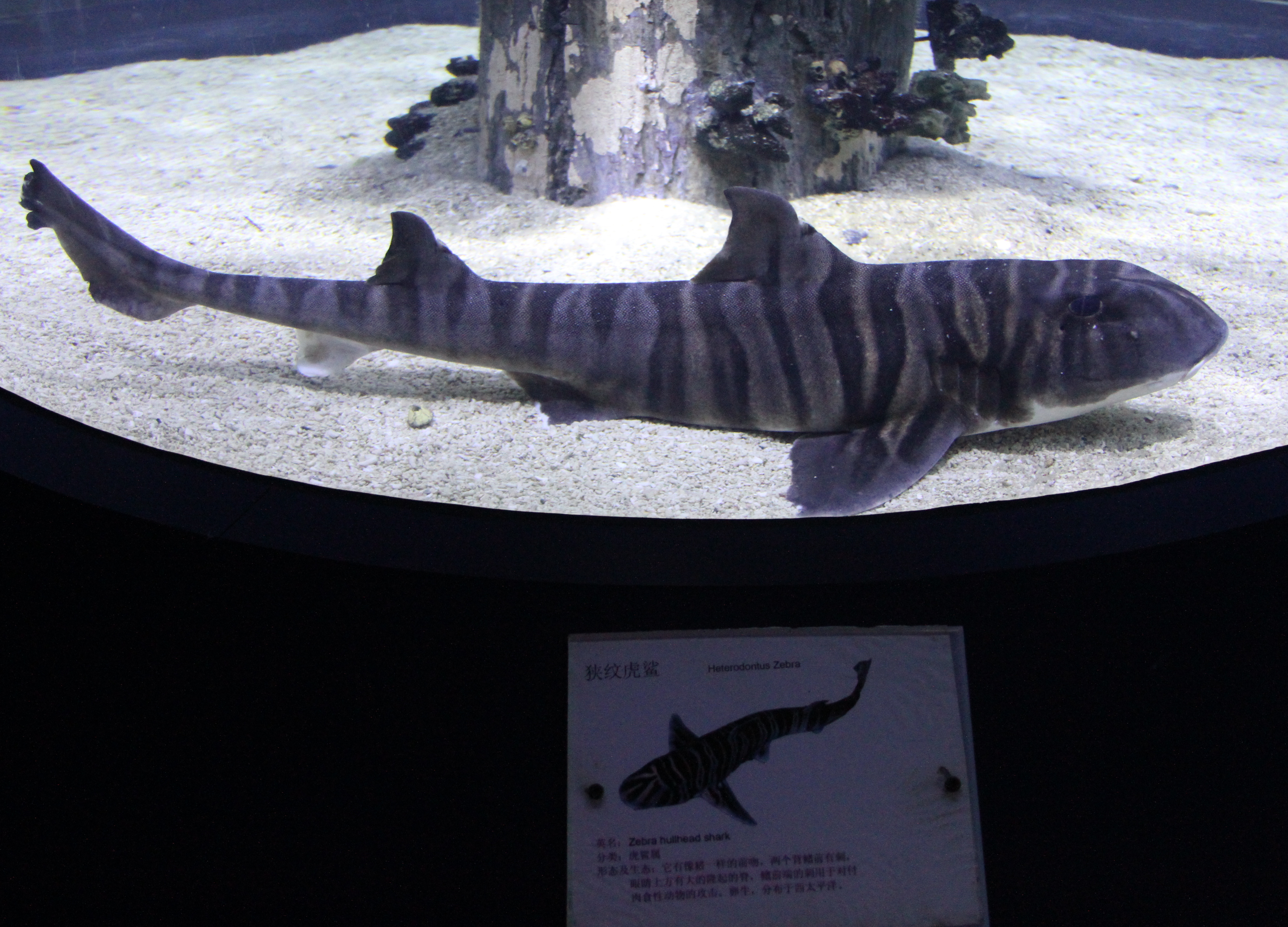 A photo of a Zebra Bullhead Shark (Heterodontus zebra) taken in a small (roughly 1.5m diameter) cylindrical tank.